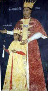 Nicolae Patrascu and his mother, Stanca